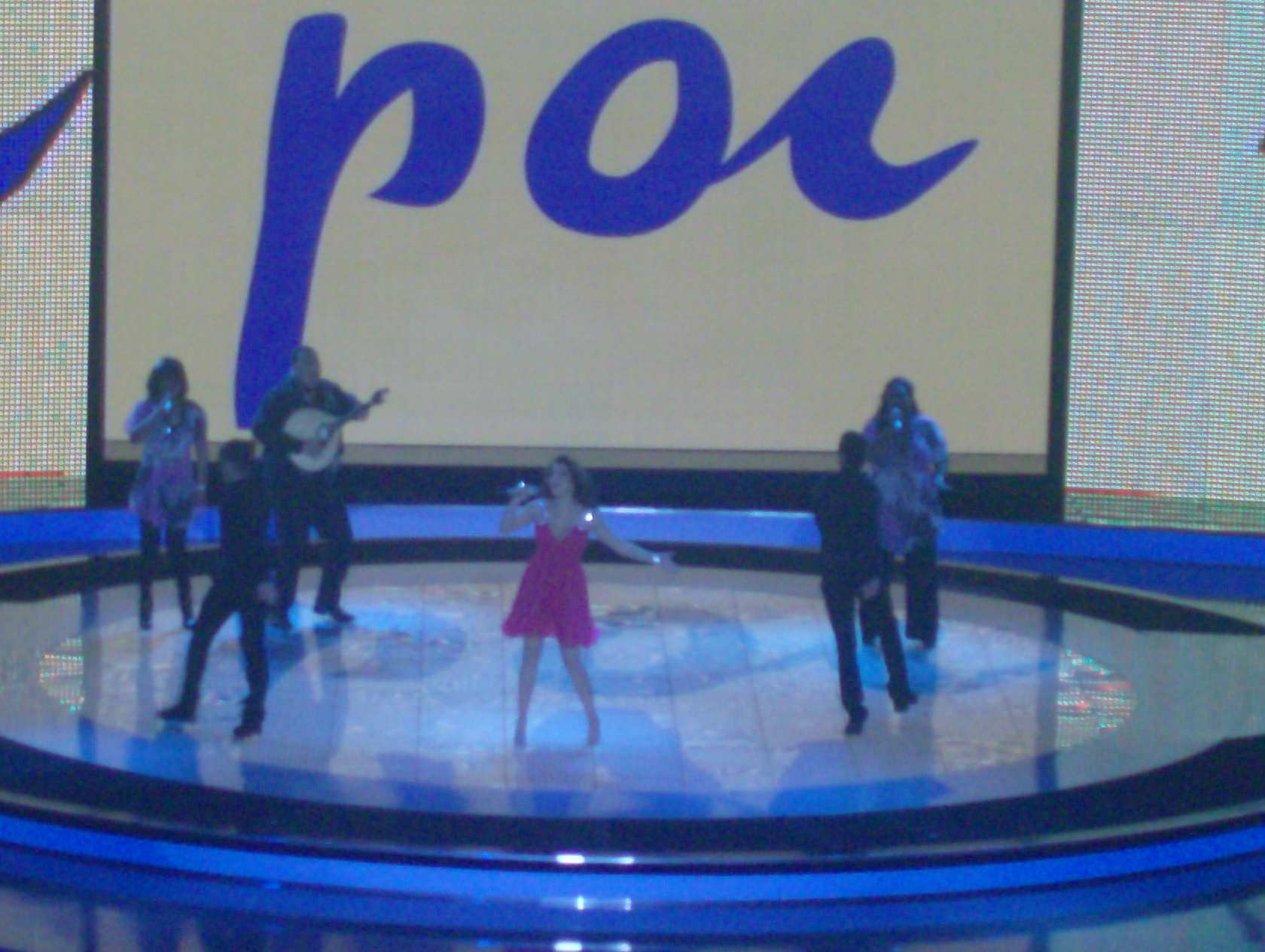 Festival RTP da Canção 2010 1st semifinal